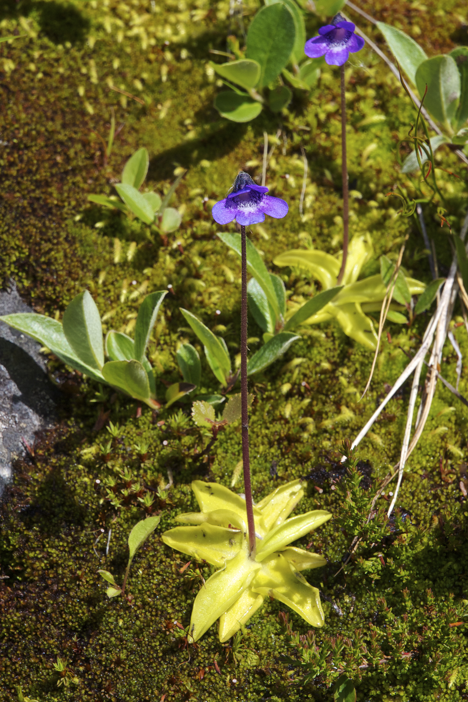 Common butterwort (Pinguicula vulgaris), Strynefjell, Norway